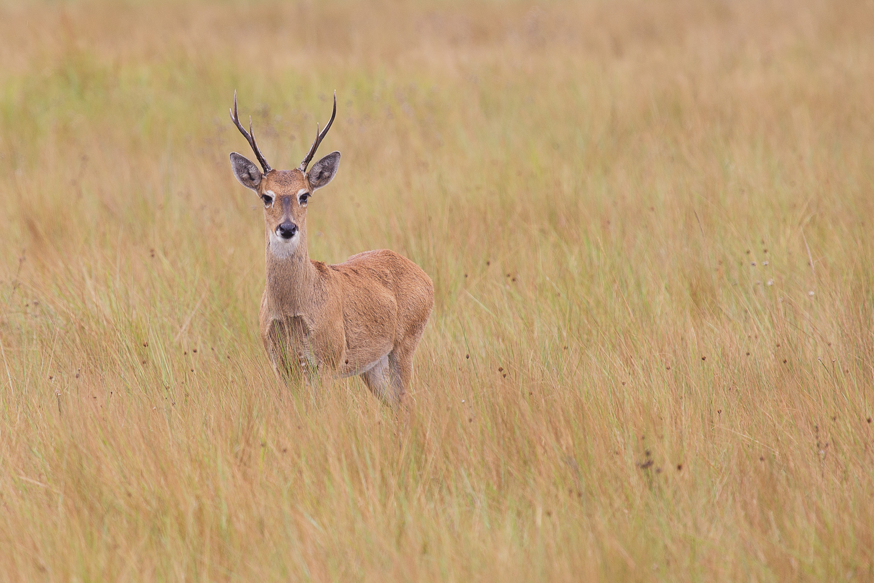 Pampas deer (Ozotoceros bezoarticus) at Parque Nacional da Serra da Canastra, MG, Brazil